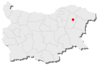 Map of Bulgaria, the red point is the position of Pliska.